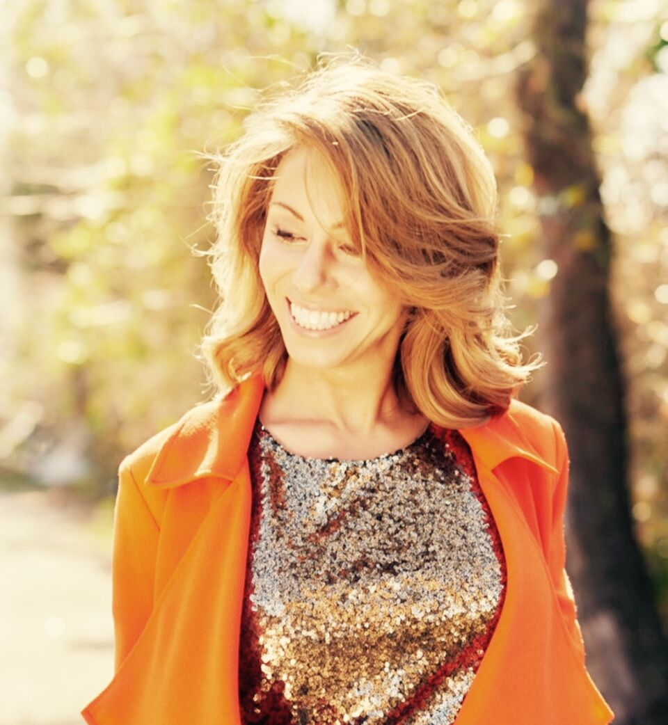 Photograph of Bella Miranda